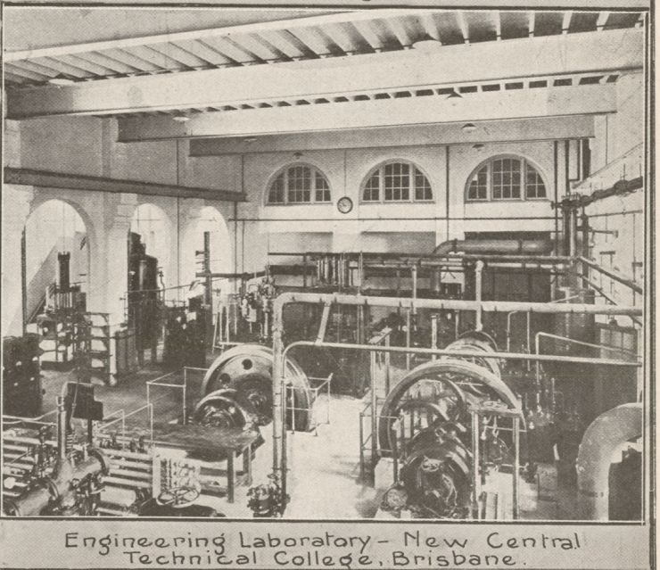 Brisbane Central Technical College - Engineering laboratory (H Block), 1915